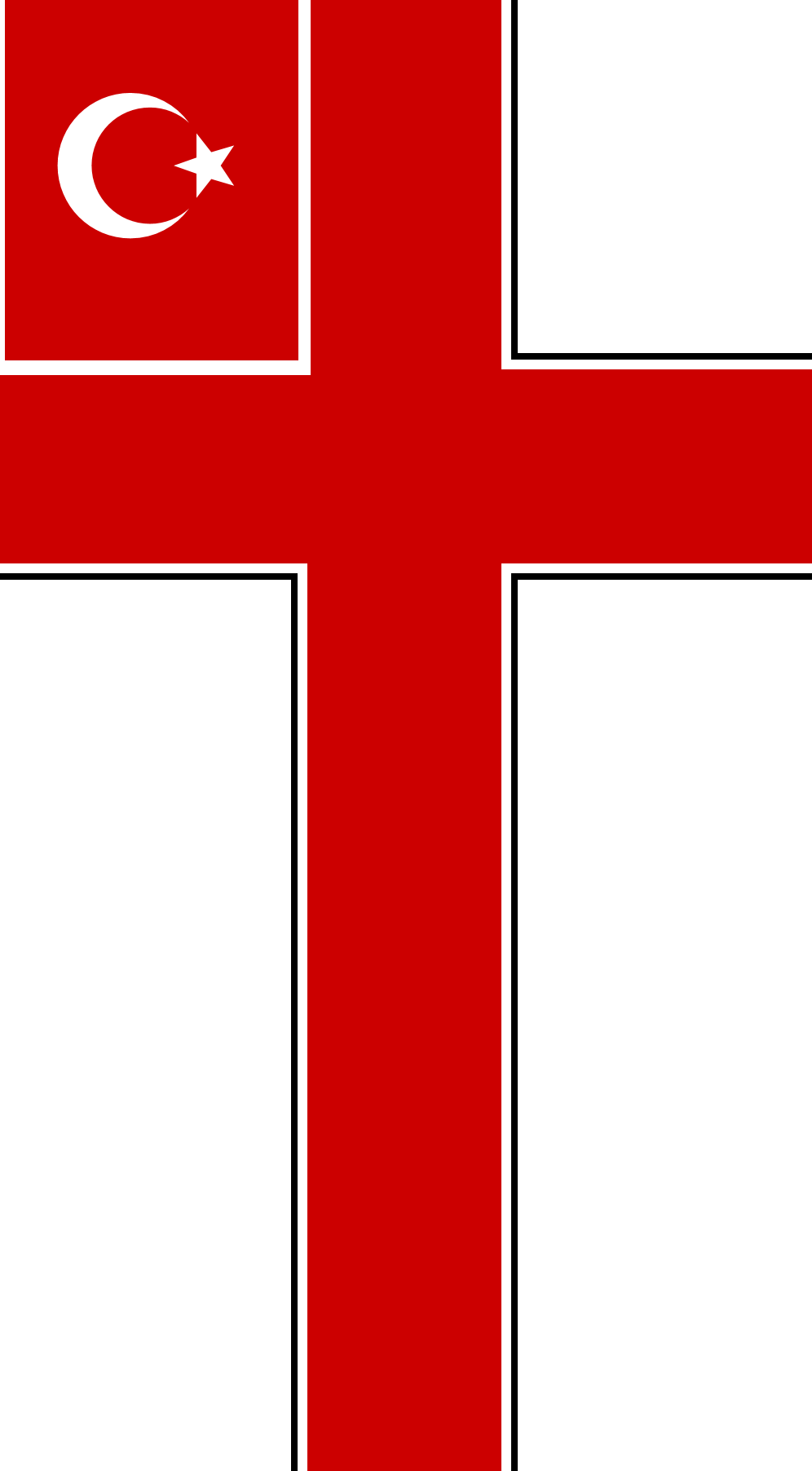 Logo of Turkish Orthodox Church. Logo is referenced